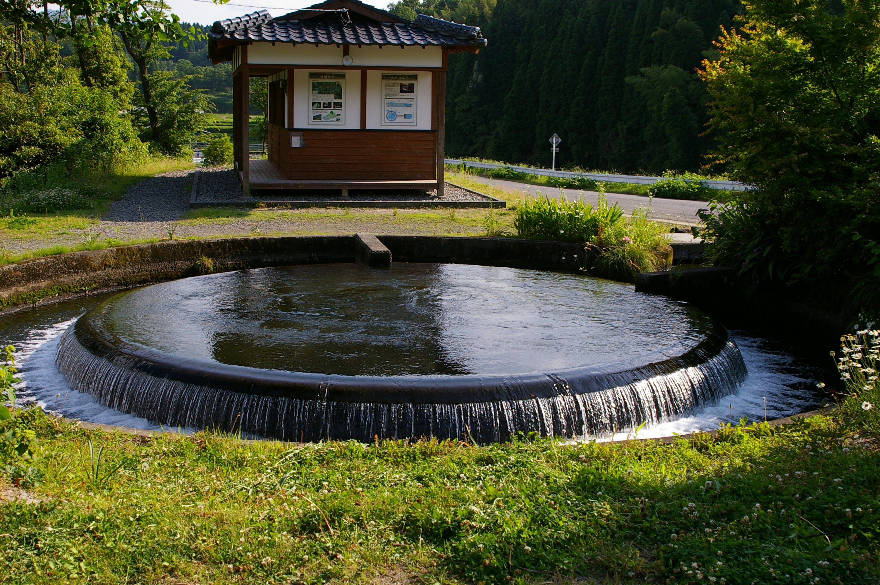 "Enkei(Entoh)-Bunsui" unit for Tsujyunkyo in Yamato-Town, Kumamoto Pref., Japan.It is very simple, but precision water distribution system for irrigation canals.